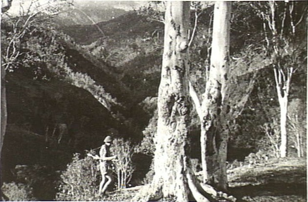 An Australian commando, possibly Sergeant William (Bill) Ernest Tomasetti, in the mountains of Timor on December 12, 1942. The picture shows terrain typical of the territory in which members of the 2/2nd Independent Company, part of "Sparrow Force", carried out a guerrilla campaign against Japanese forces during 1942–43. (Photograph by Damien Parer.)